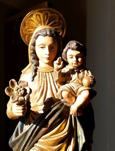 Virgin of Roser (Pallerols, Baronia de Rialb, Catalonia).